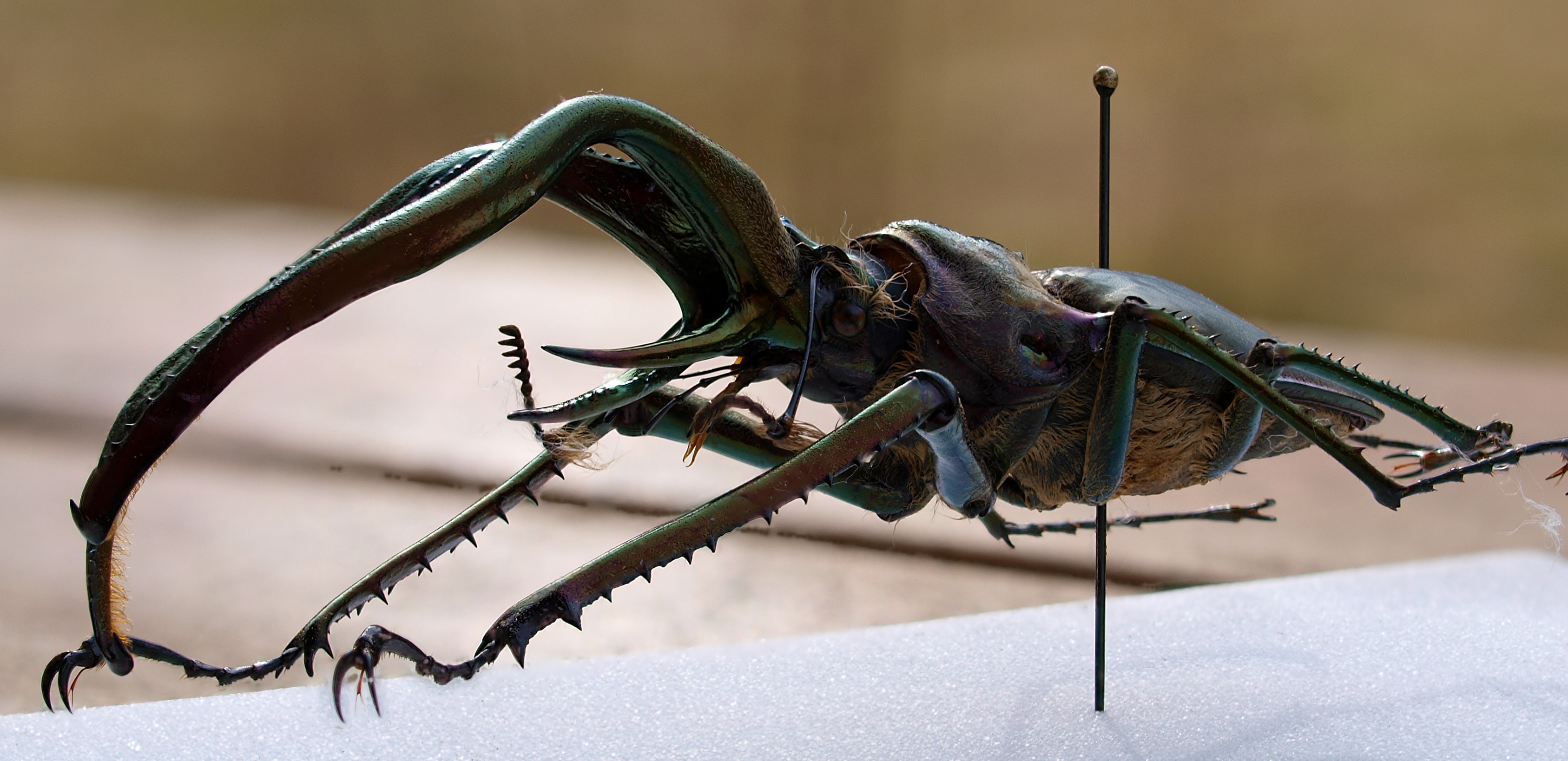 Chiasognathus granti, male